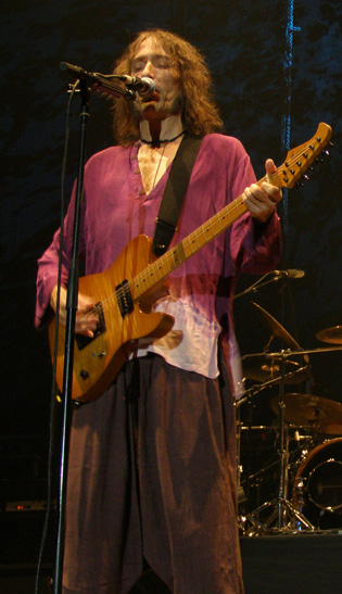 Roberto Iniesta, Palacio de los Deportes de la Comunidad de Madrid, 2008.